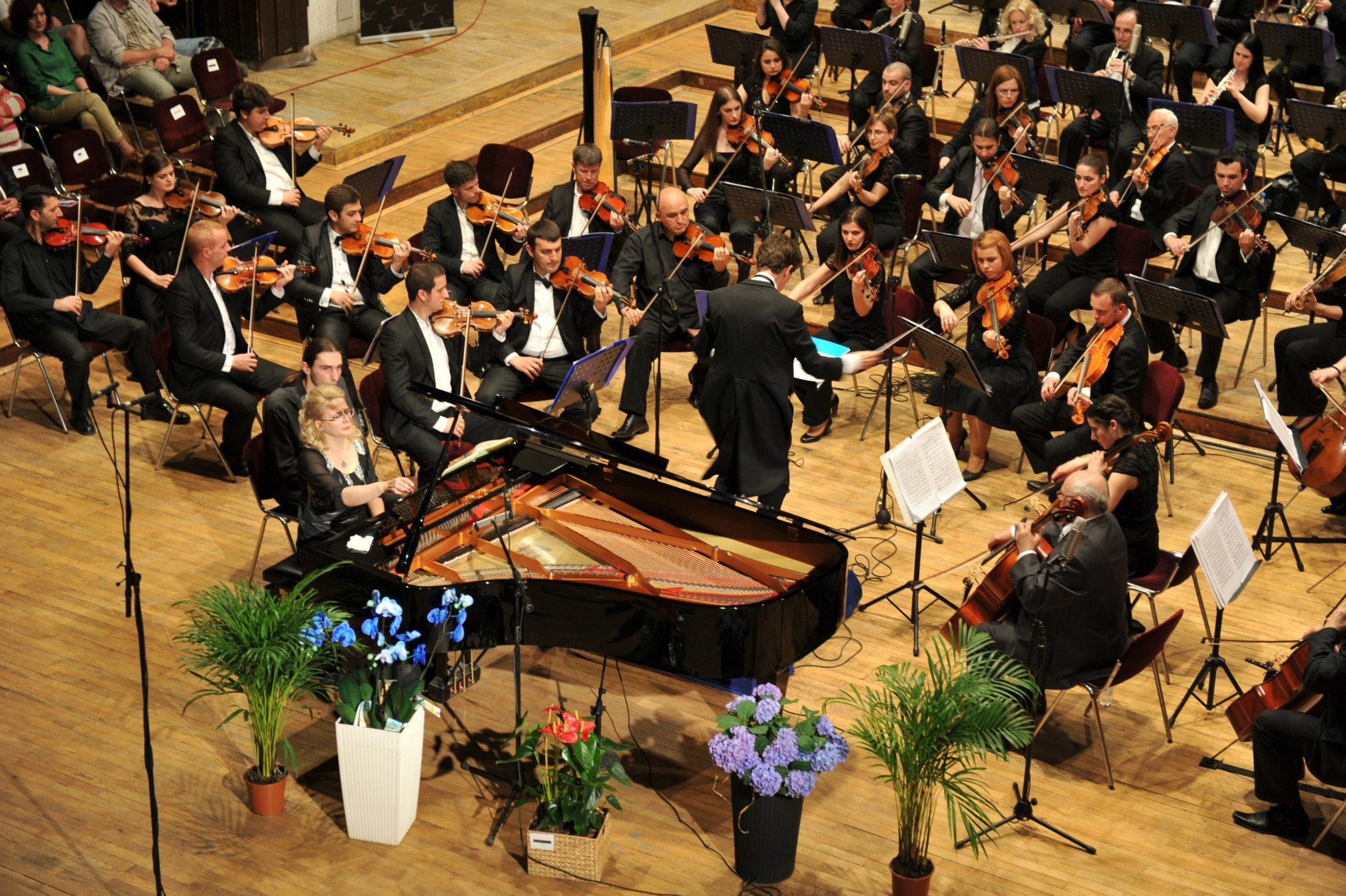 Lejla Pula (soloist) performs with the Kosovar Philharmonics in the Final Closing night of the Festival